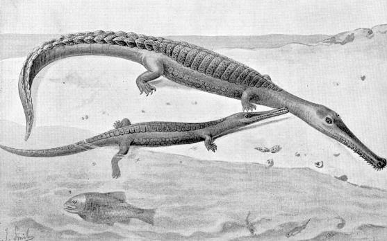 Illustration of Teleosauurus from Creatures of Other Days, 1894 England.